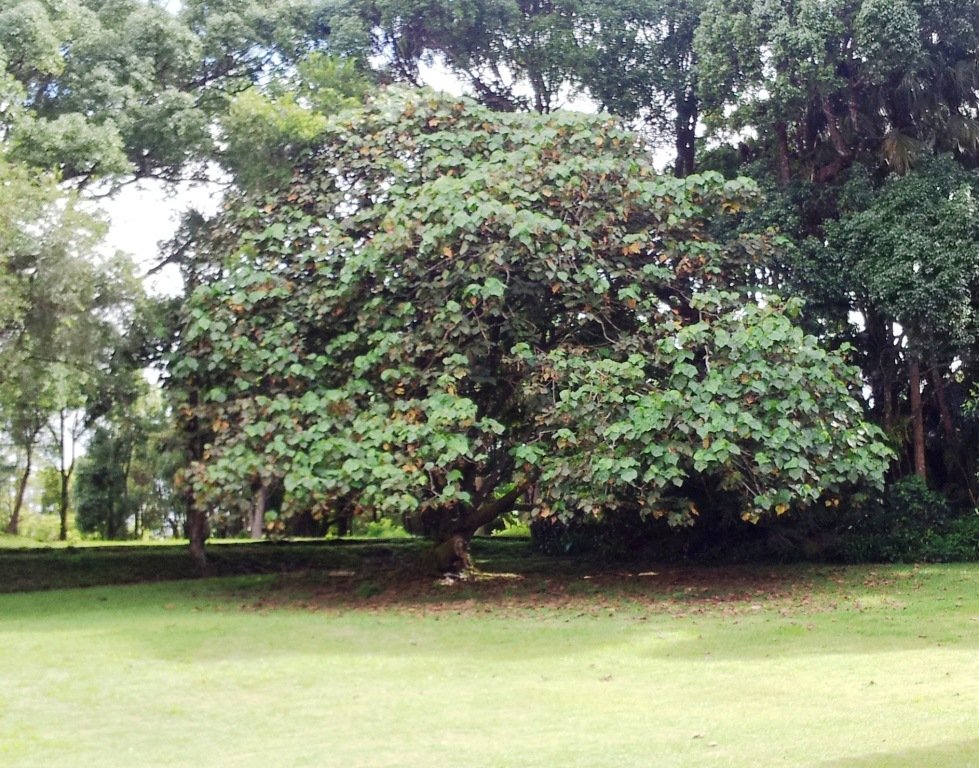 Dombeya acutangula - Curepipe - Mauritius